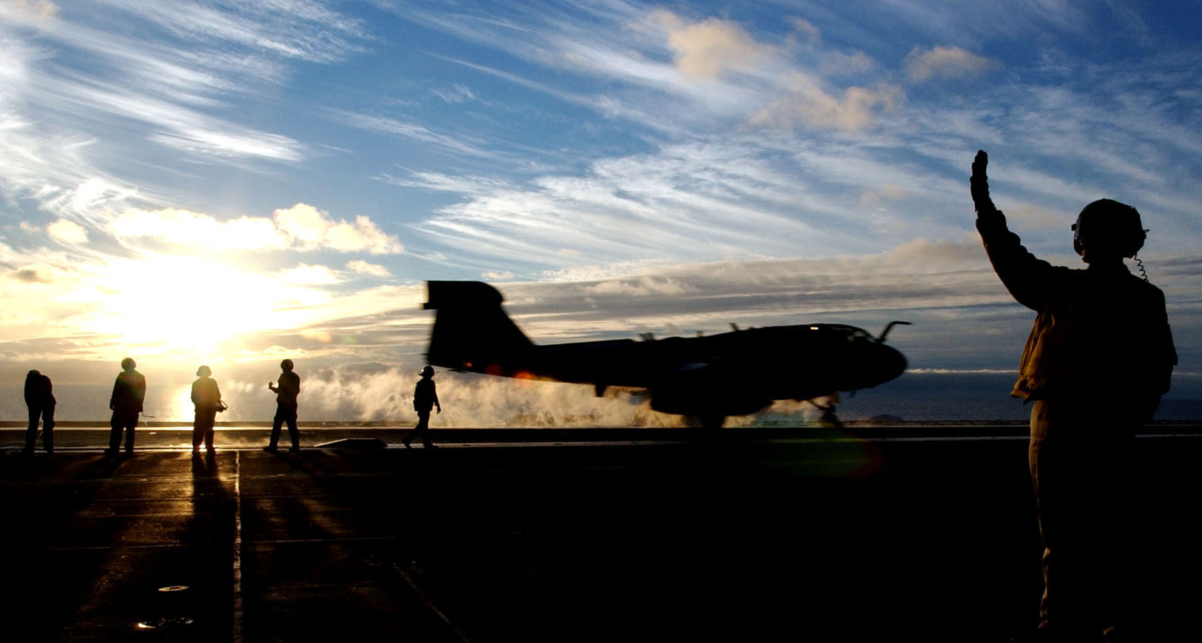 Pacific Ocean (Nov. 9, 2003) -- A flight deck officer signals as an EA-6B Prowler launches from the flight deck aboard USS John C. Stennis (CVN 74). Stennis and her embarked Carrier Air Wing Fourteen (CVW-14) are at sea conducting Composite Training Unit Exercise (COMPTUEX) in preparation for an upcoming deployment. U.S. Navy photo by Photographer's Mate Airman Charles D. Whetstine. (RELEASED)